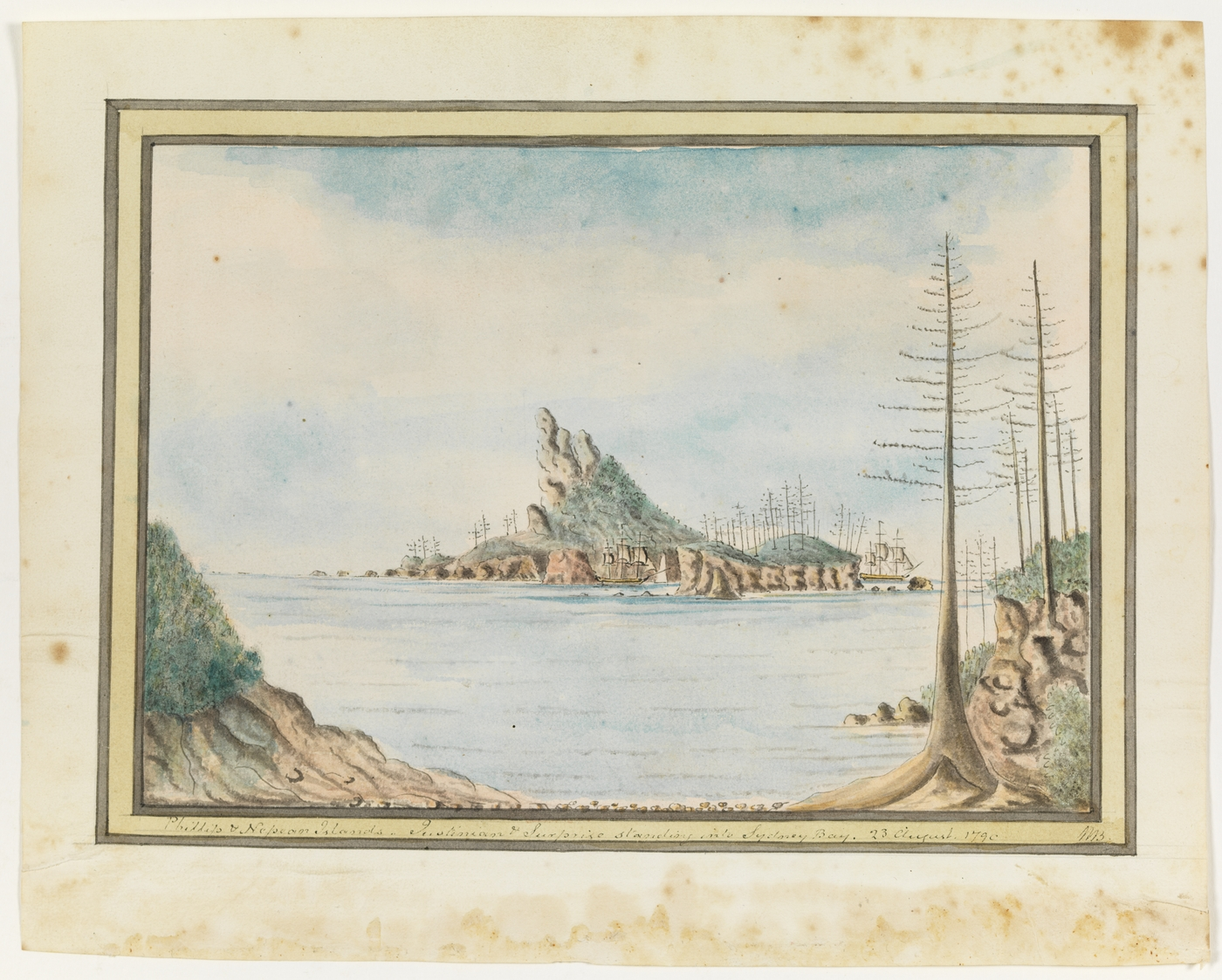 Justinian and Surprize standing into Sydney ay, Norfolk Island, 23 August 1790, wash drawing from Journal 'A Voyage to New South Wales' by William Bradley, State Library of New South Wales Drawing from William Bradley's Journal, A Voyage to New South Wales, ca. 1802. 23. 'Phillip & Nepean Islands. Justinian & Surprise standing into Sydney Bay. 23 August 1790' (opp. p. 211)